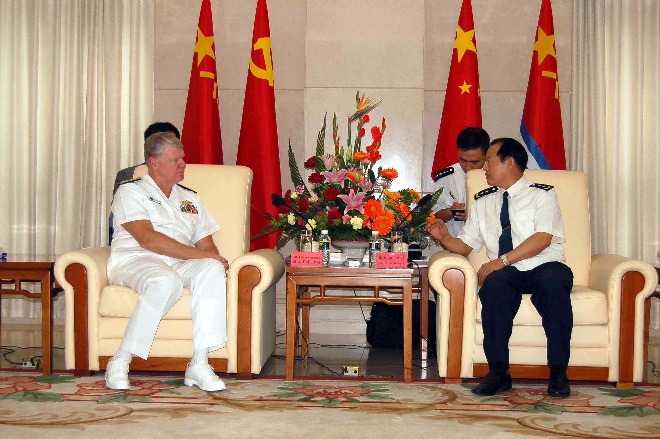 Zhanjiang, People’s Republic of China (Nov. 15, 2006) - Commander, Pacific Fleet Adm. Gary Roughead speaks with Vice Adm. Gu Wengen, Commander of the People’s Liberation Army (Navy) South Sea Fleet during a courtesy call. Roughead and the amphibious transport ship USS Juneau (LPD 10) along with Marines assigned to the 31st Marine Expeditionary Unit (MEU) are currently in Zhanjiang for a scheduled port visit and search and rescue exercise (SAREX). U.S. Marine Corps photo by Staff Sgt. Marc Ayalin (RELEASED)